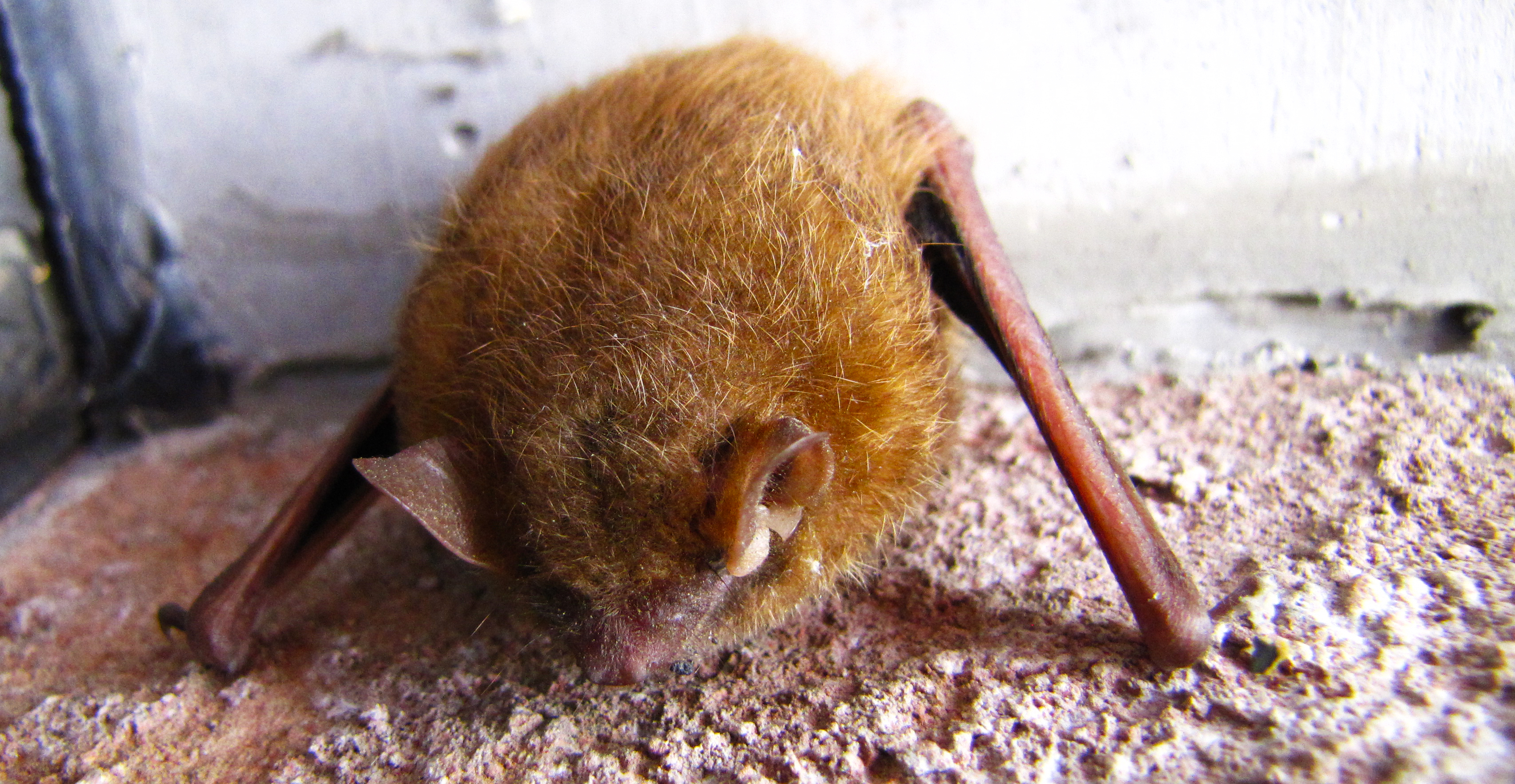 A sleeping bat.